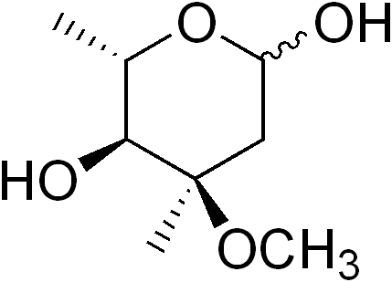 Chemical structure of L-cladinose created with ChemDraw